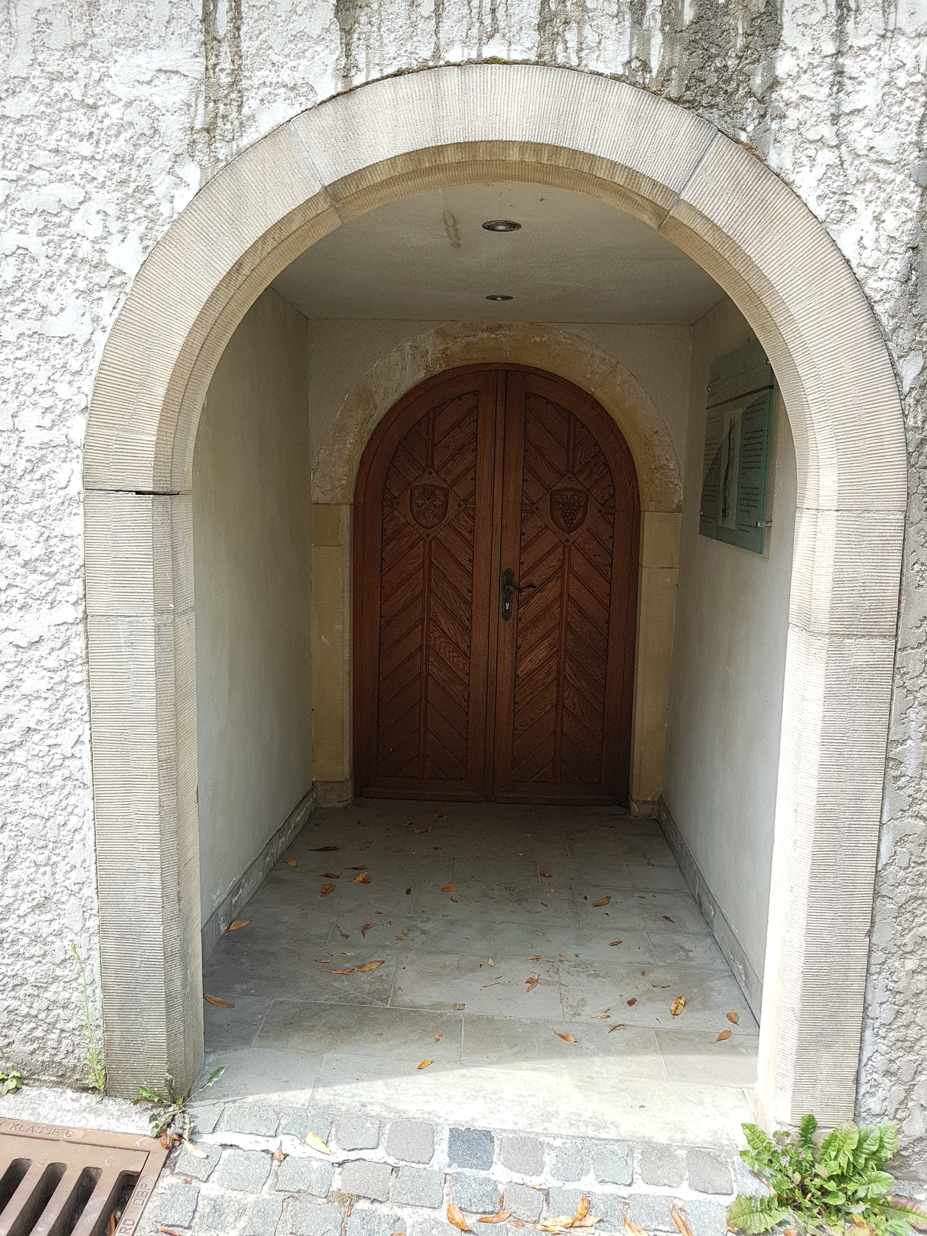 The Kochhouse in Schengen was built in 1779 and named after the Schengen Palace Administrator Johann Peter Koch. It is located near the Schengen Castle and was initially used as a residence for guests. Since March 20, 1967, the Kochhouse is a protected monument in Luxembourg.